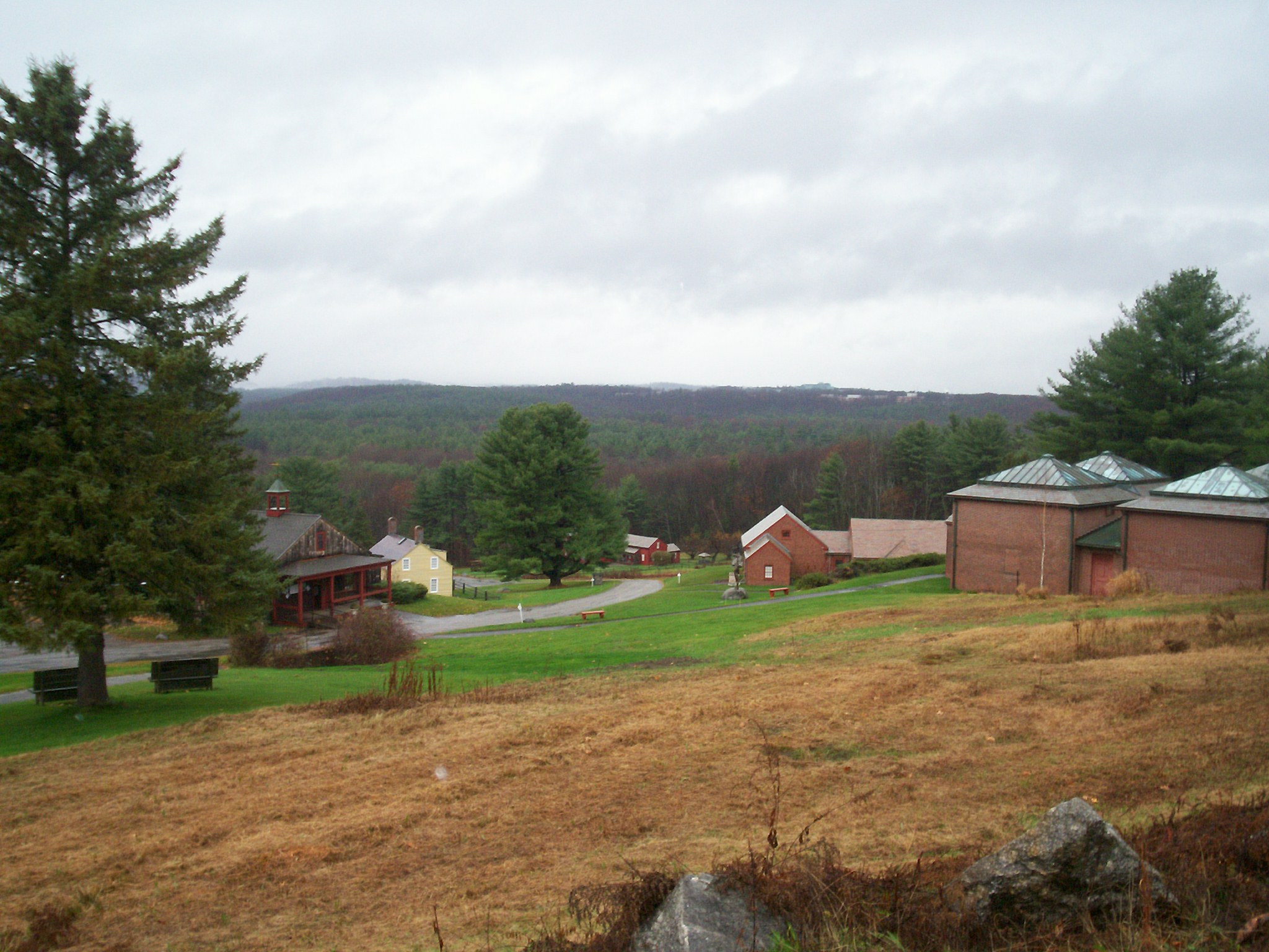 Fruitlands Museum in Harvard, Massachusetts, as seen from near welcome center.